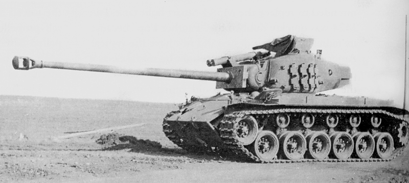 The first "Super Pershing", a T26E1 mounted with the L73 90mm T15 gun. This photograph was taken after the tank arrived in Europe, and maintenance units in the Third Armor Division added extra armor to the front of the tank. The Pershing's gun mantlet was a known weak point in the armor, and so an 80mm piece from a Panther tank was added. Note the coil springs on top of the gun mount, which were required to balance the extra weight of the long gun barrel.